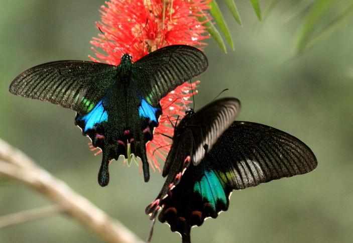 Common Peacock, Papilio polyctor (Boisduval, 1836) near Banjhakri falls in Gnagtok,Sikkim there were a dozen of them among other butterflies nectaring on this plant